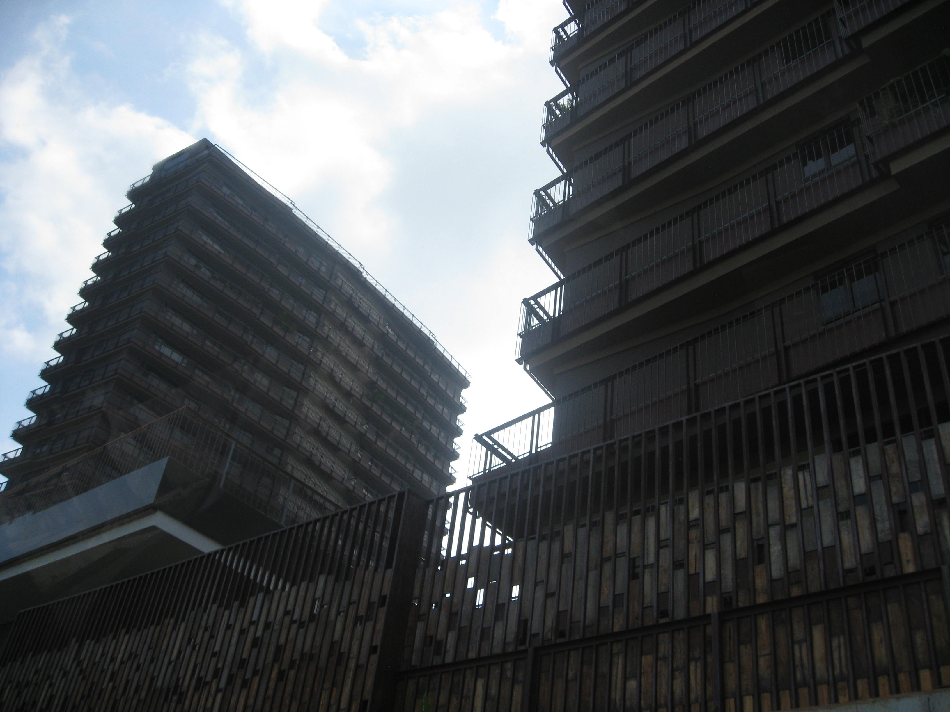 Apartment Complex Escalon